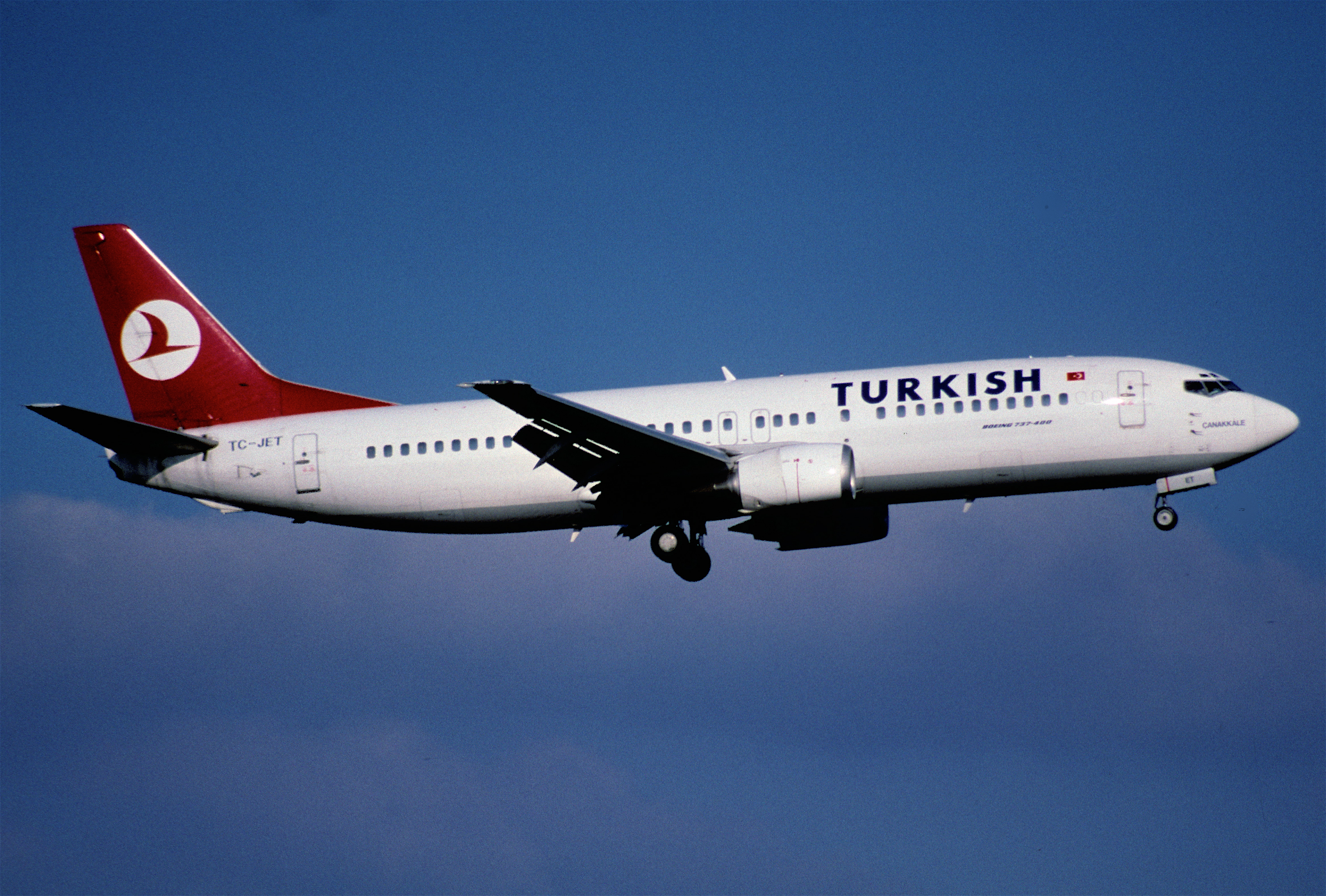 266bd - Turkish Airlines Boeing 737-4Y0; TC-JET@ZRH;07.11.2003